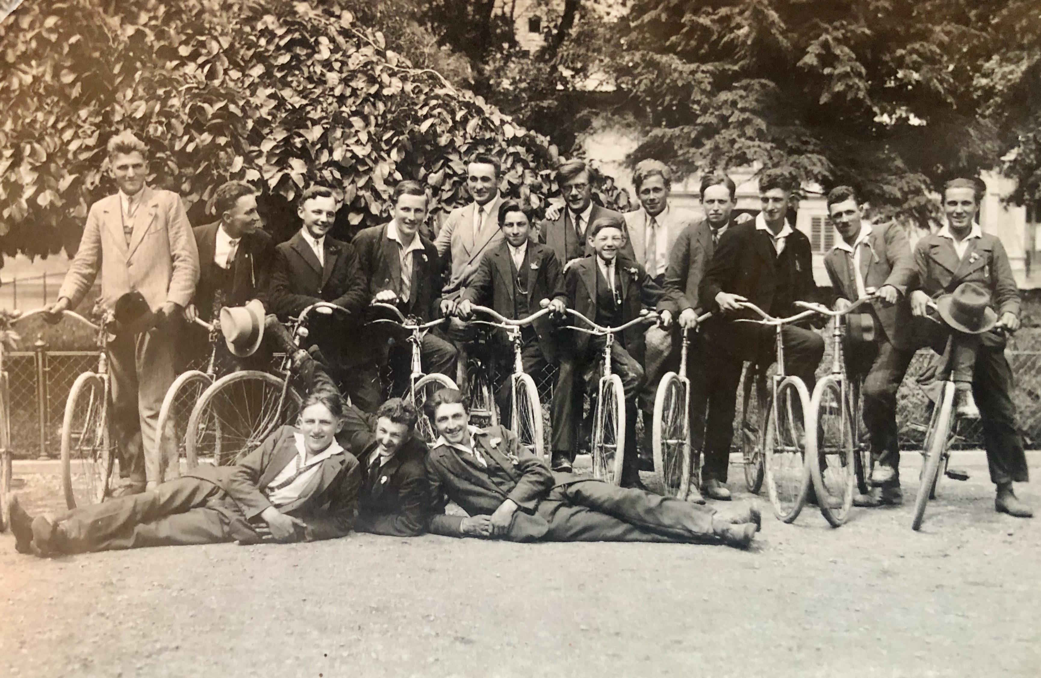 An association of rural boys and girls in Jursinci in 1934. The association's president Janza Toplak is standing the fifth from the left.